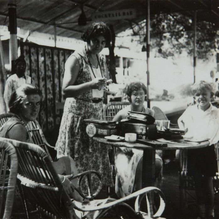 Women drinking tea in a cocktail bar at the bathing place Kali Bening